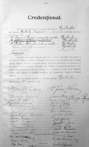 Mandate of the Electoral district of Bistrița, in which it says that the Romanian politician Petre Poruțiu was elected, on 26th of november 1918, deputy in the Great National Assembly from Alba Iulia, as his name can be seen on the third line in the upper-left side of the document - Romania, 1918Română: Credenționalul Cercului electoral Bistrița, în care scrie ca Petre Poruțiu a fost ales, la data de 26 noiembrie 1918, deputat în Marea Adunare Națională de la Alba Iulia, 1918, numele său fiind scris pe al treilea rând din partea stângă-sus a documentului